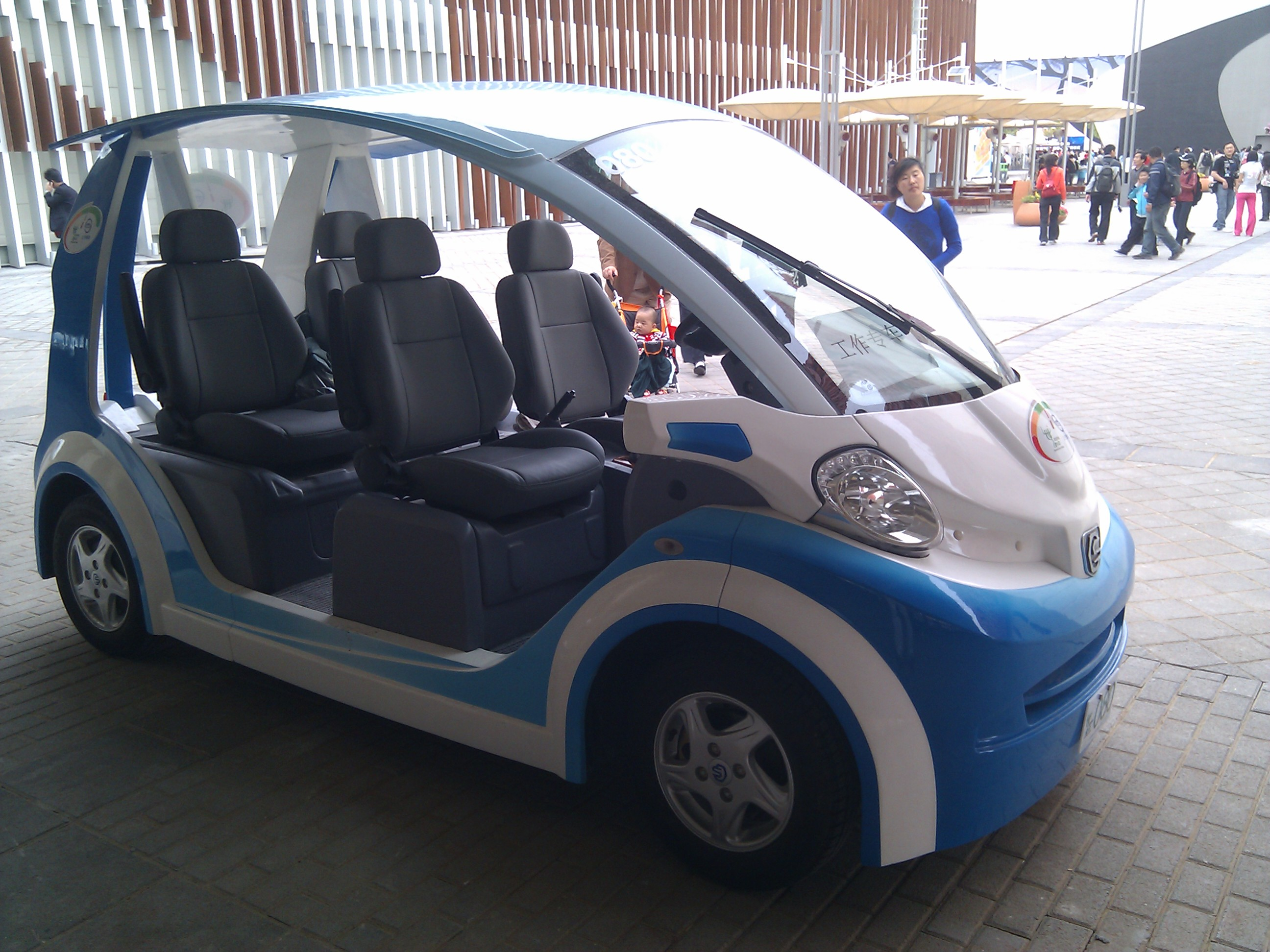 Sightseeing car at Shanghai Expo